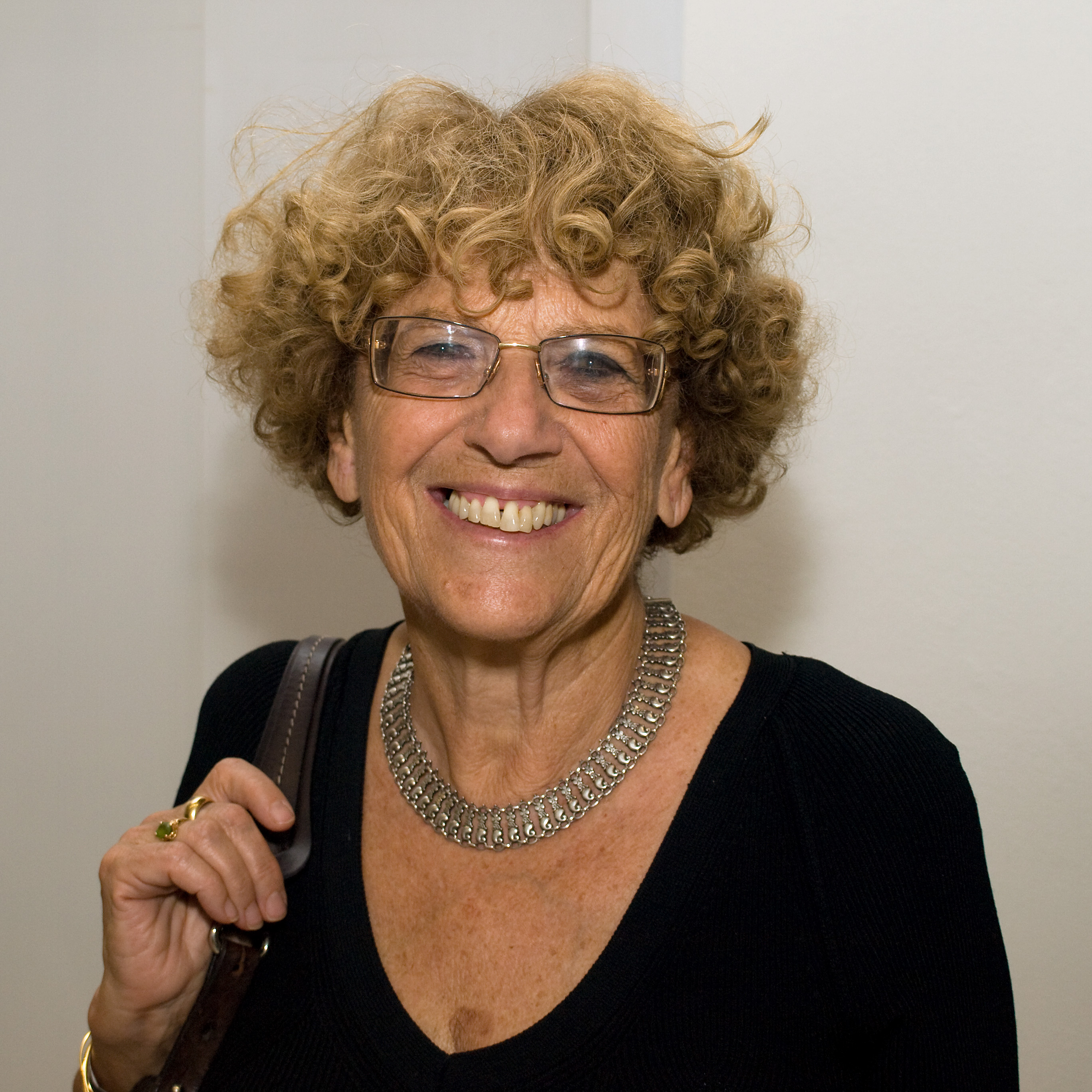 The Night of Philosophy in Prague: French mathematician and historian of science Amy Dahan